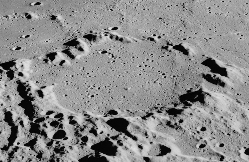 Oblique view of Réaumur crater, on the moon, facing north.